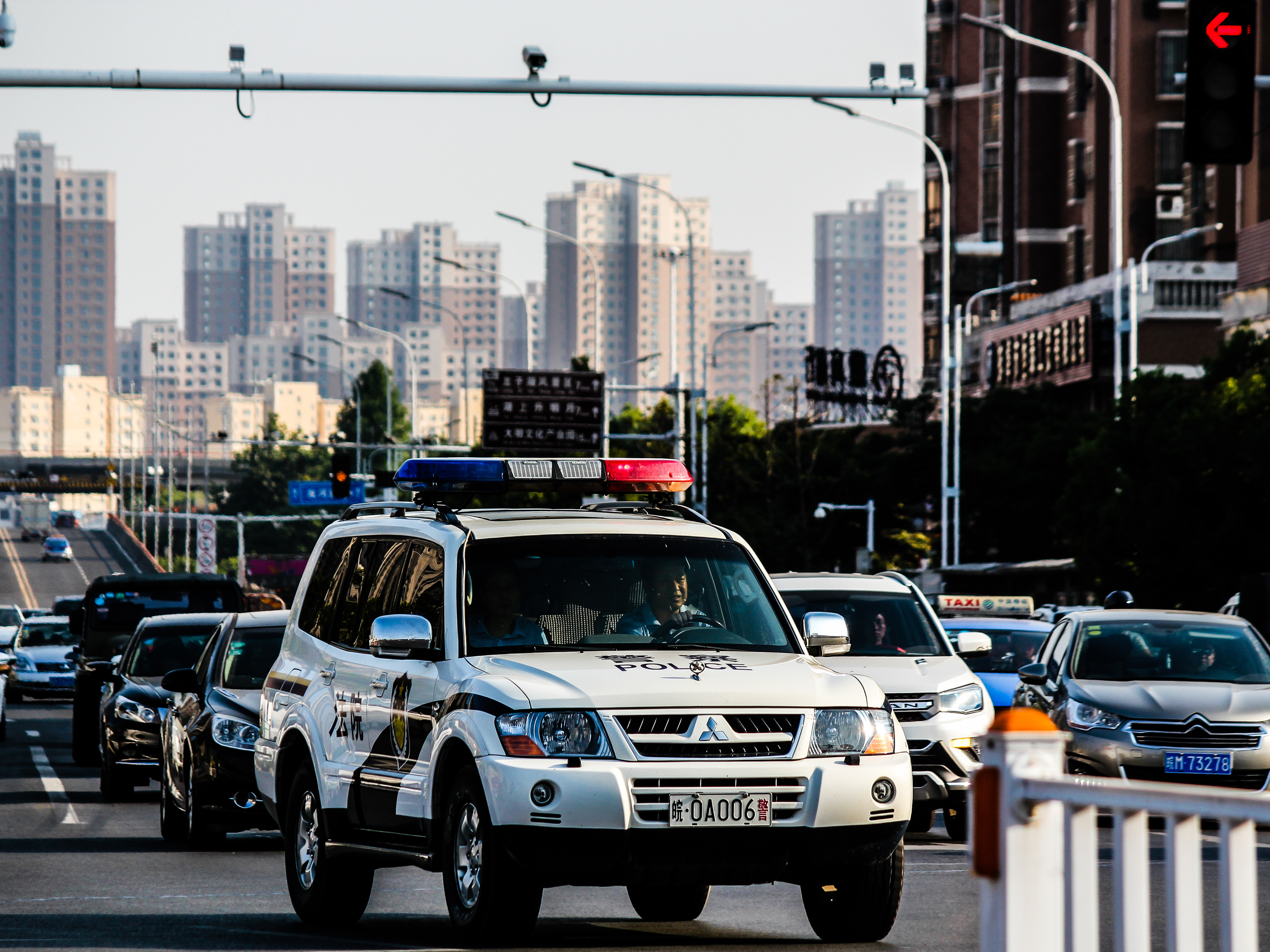 Mitsubishi Pajero V7X police car in China.